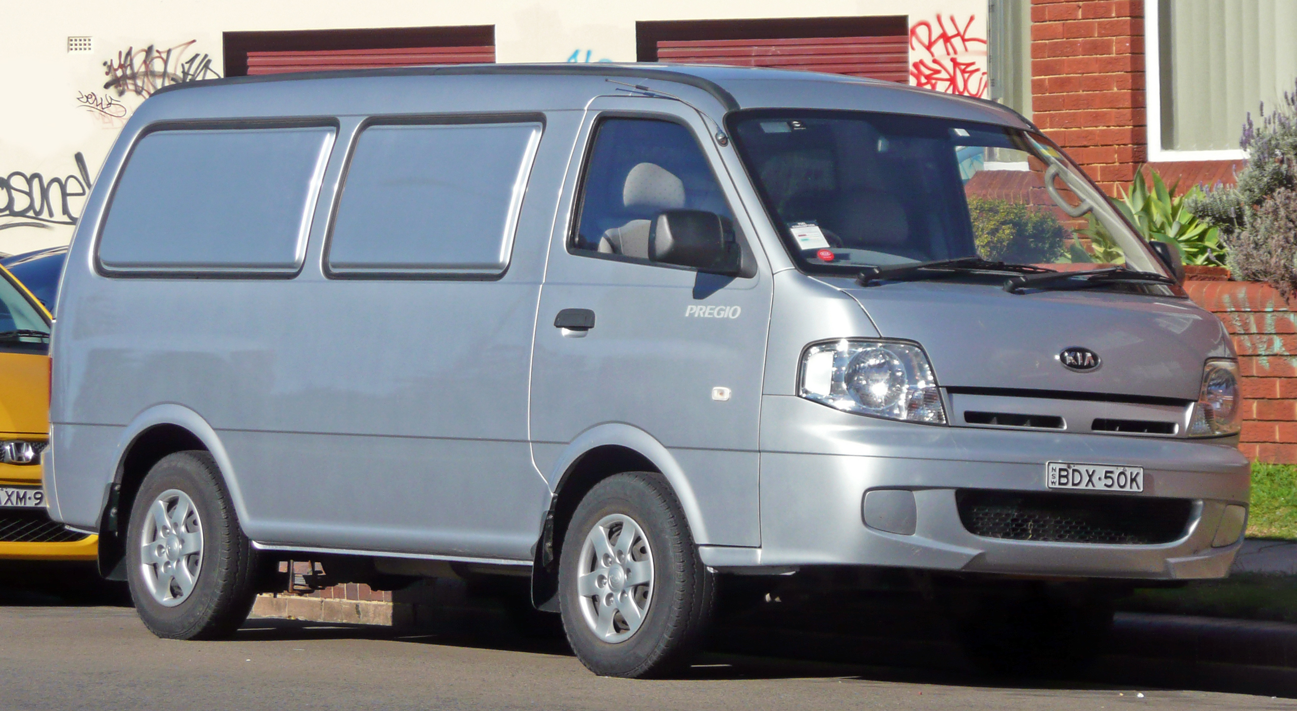 2005 Kia Pregio (CT2) GS van. Photographed in Cronulla, New South Wales, Australia.